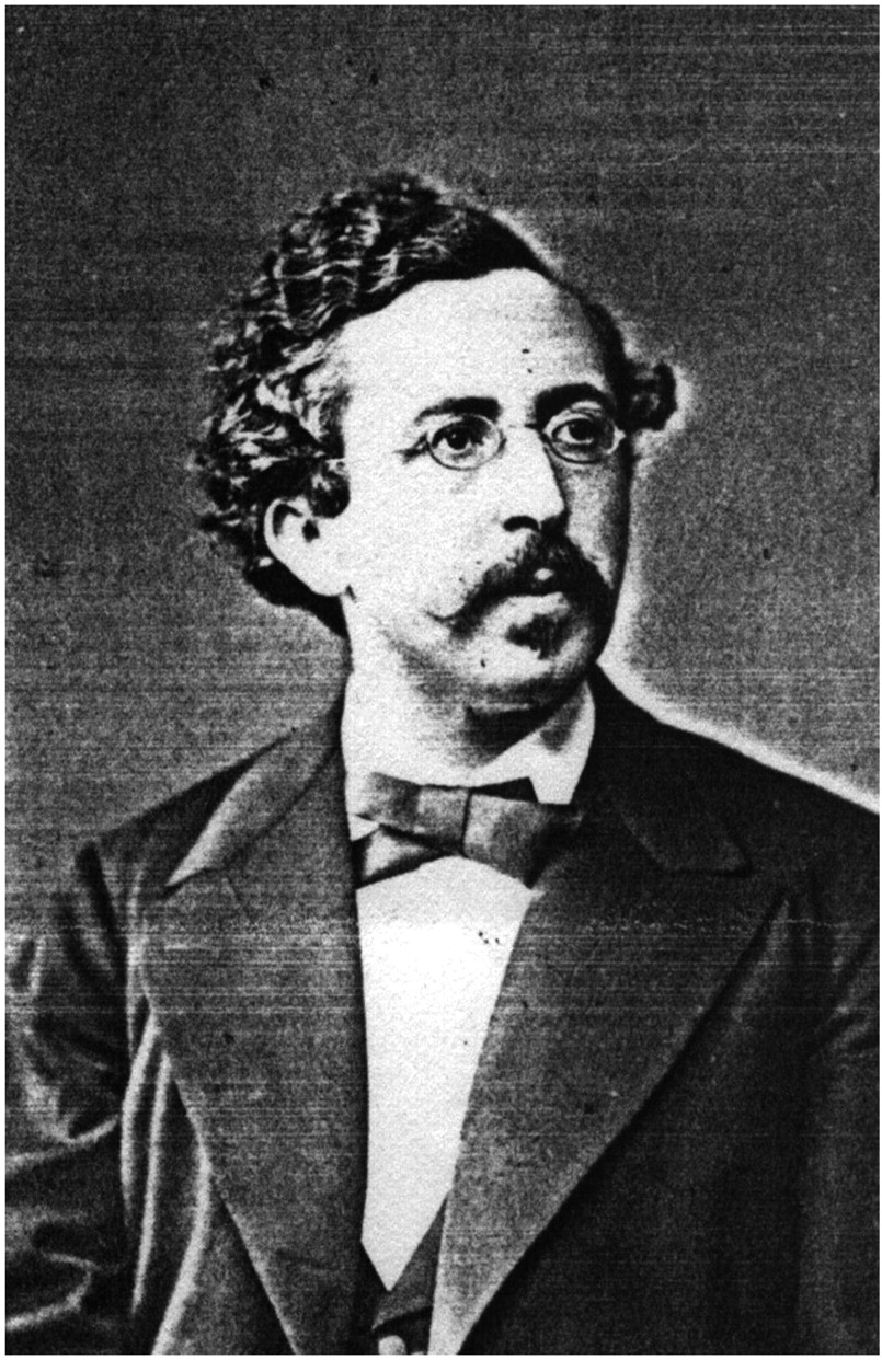 Hermann Cohen